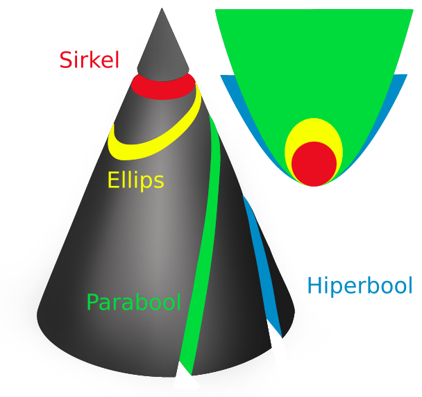 Types of conic sections